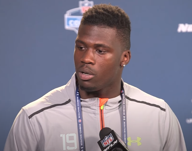 In 2015